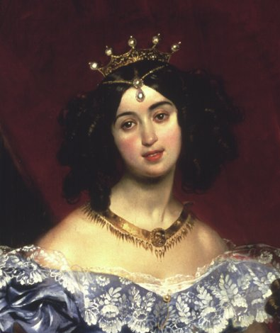 Portrait of Countess Samoilova with (Giovanina) Amazilia Pacini and black boy